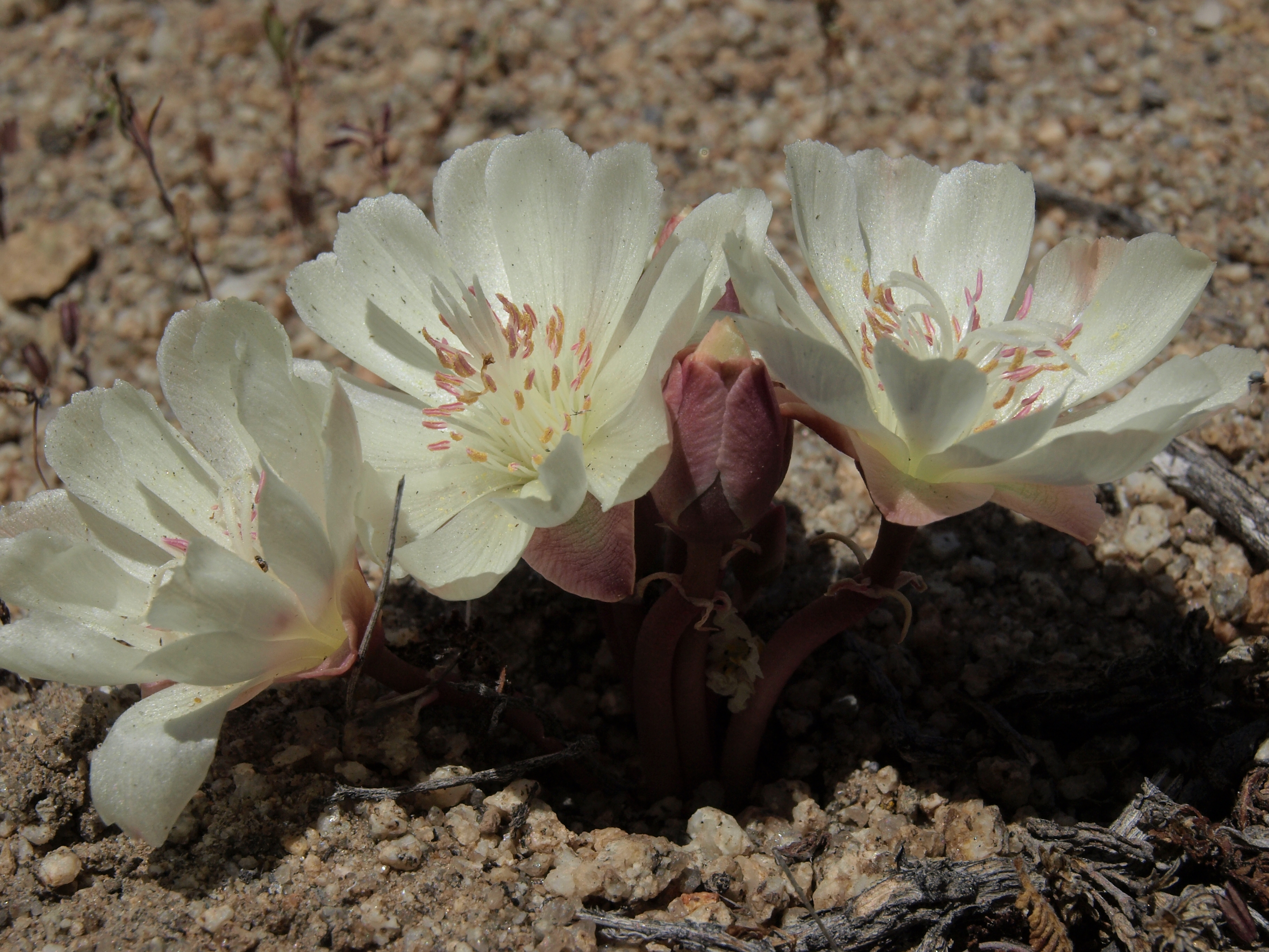 bitterroot, Lewisia rediviva var. rediviva, California, Glass Mountain, Benton Crossing Road, Owens Valley drainage, elevation 2228 m (7310 ft). This species is iconic to the mountains and steppes of western North America, and was first named and described from specimens collect during the Lewis and Clark expedition of 1806. It is the state flower of Montana, and the vernacular "bitterroot" ended up in the names of several places and features in the region. The Latin name "rediviva" refers to the plant's ability to revive after the thick roots appear to be dry and dead. The roots before flowering time were gathered as an important food source by indigenous peoples.